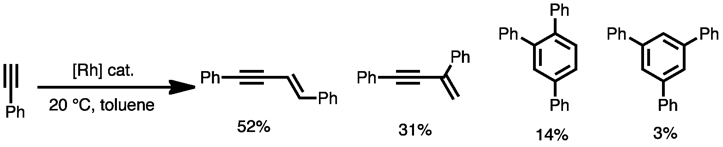 A reaction illustrating the side products of cyclotrimerization of alkynes.